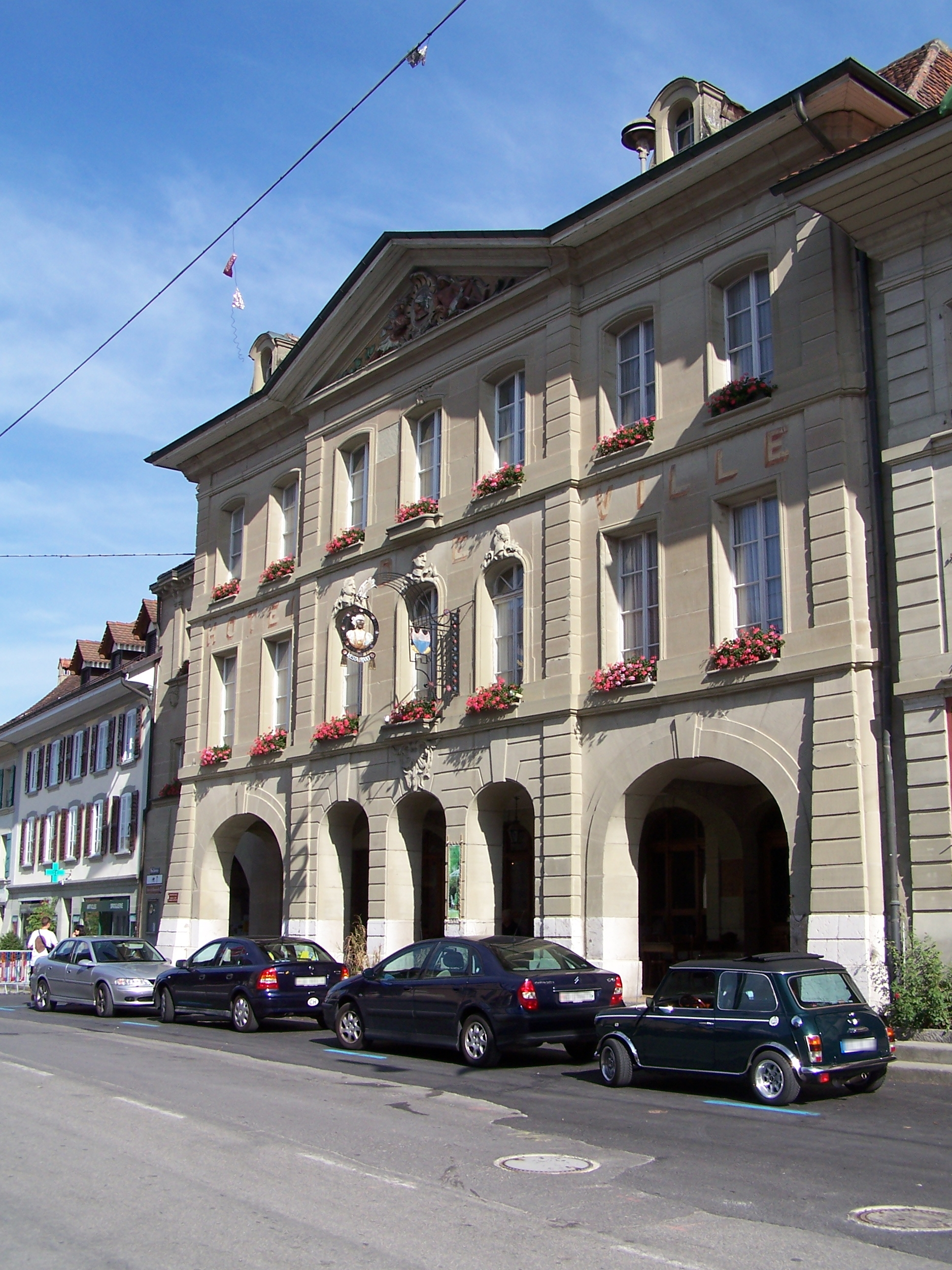 town hal of Avenches, Vaud, Switerland